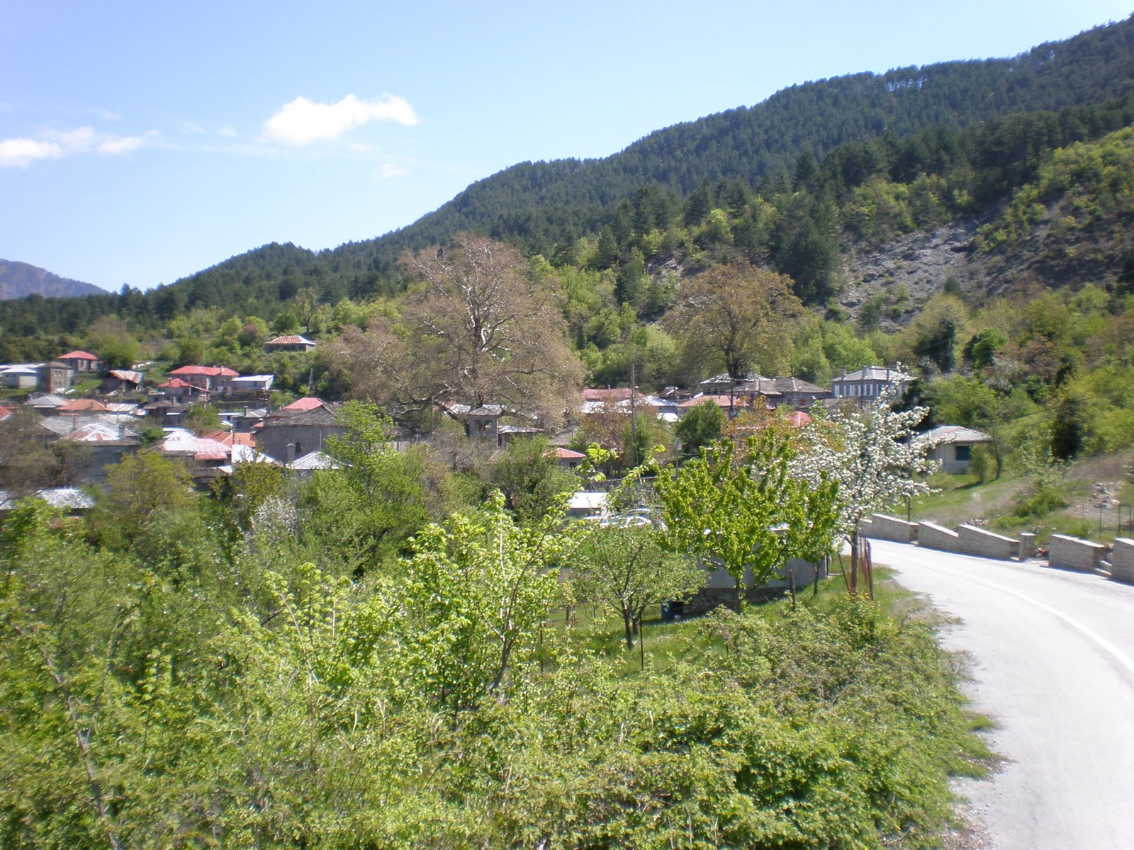 A view of the village Gannadio, in the region of Konitsa in Greece.